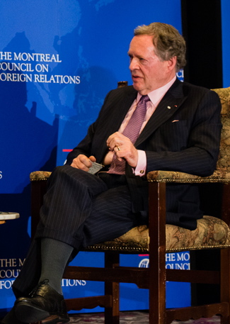 Former Canadian Ambassador to the United States Raymond Chrétien Photo Credit: Sylvie-Ann Paré